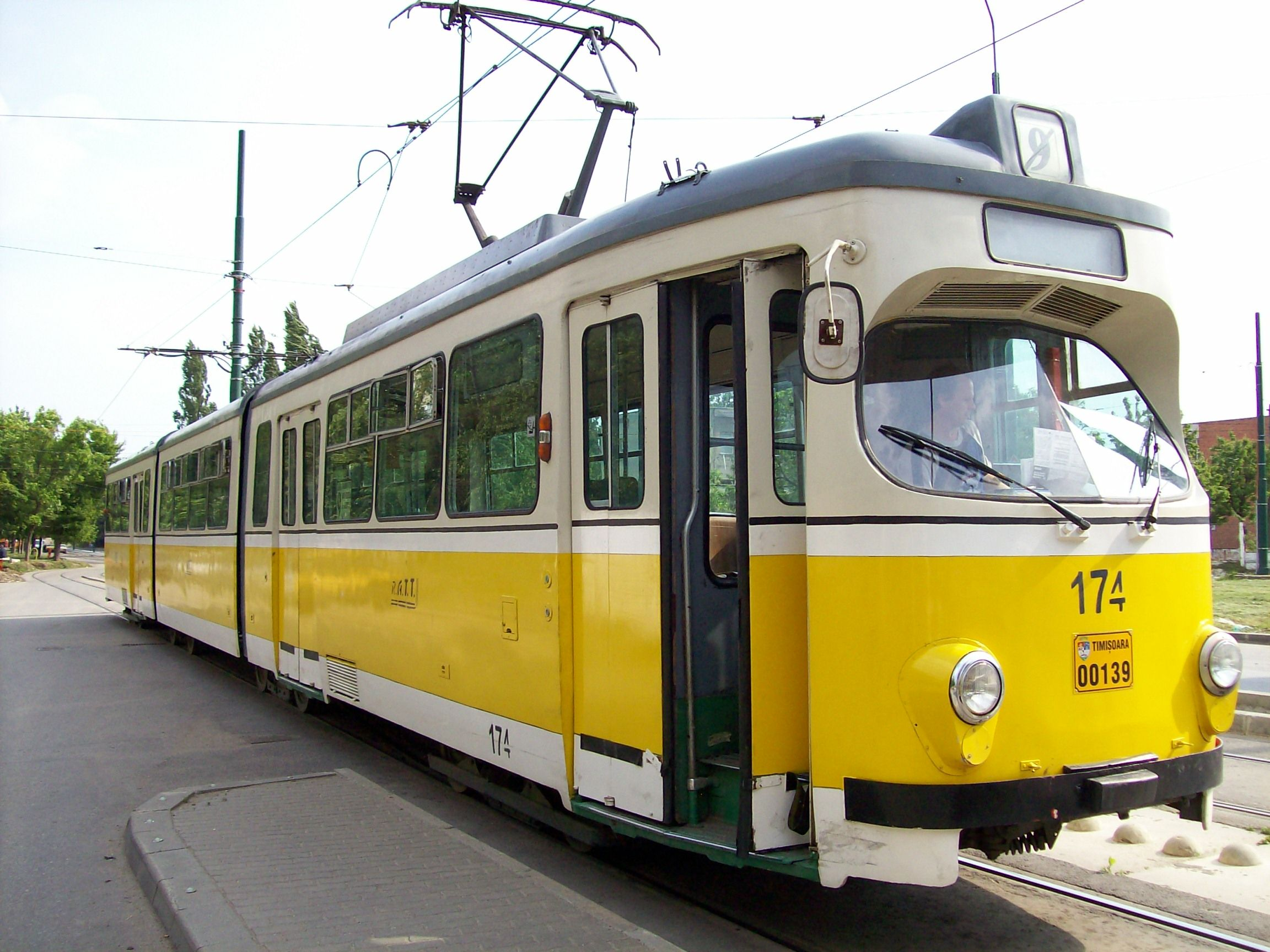 Waggon Union GT8-D 174, tram line 9b, Timișoara, 2007